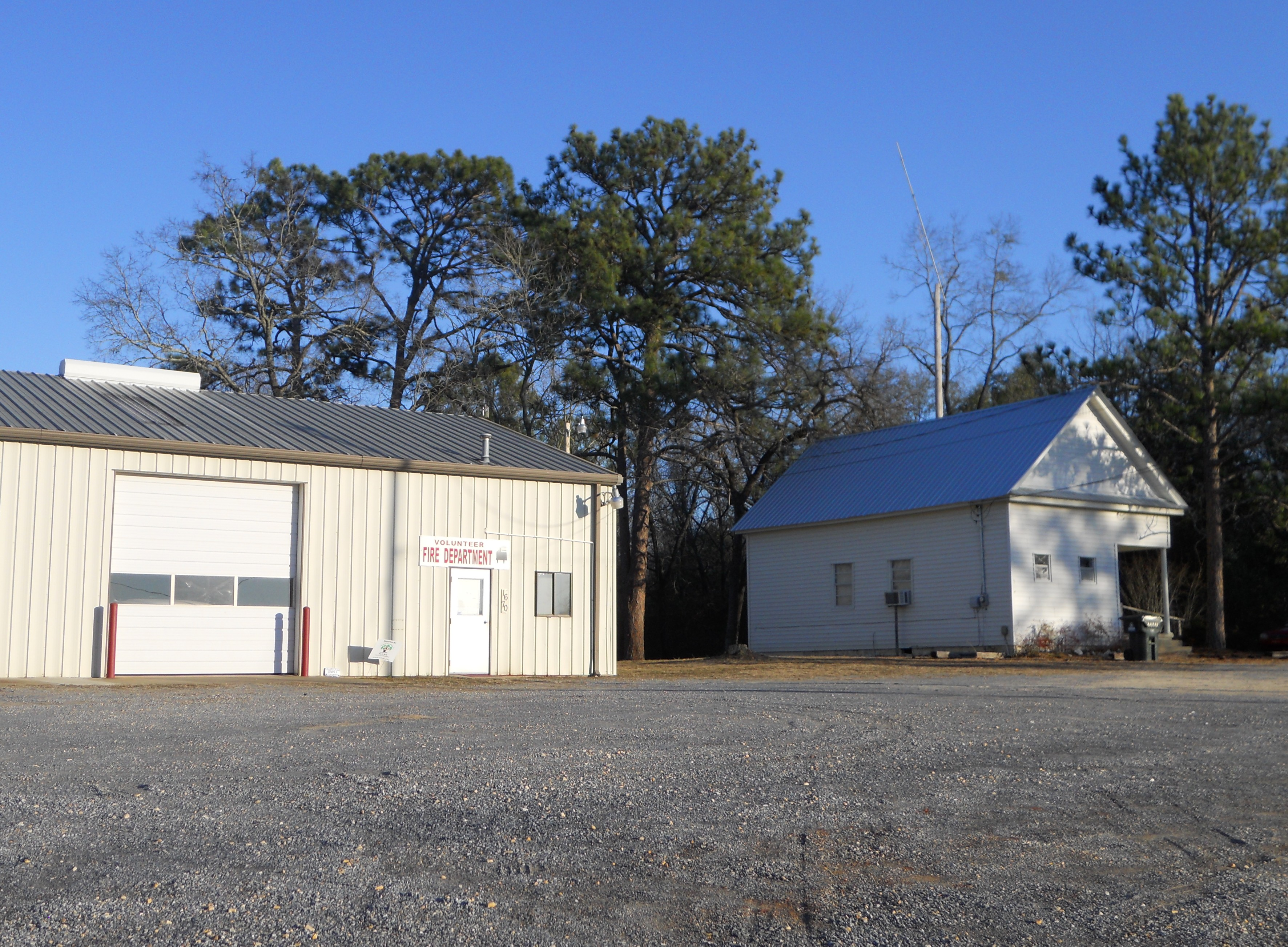 This is a photo of the town of Franklin, Alabama.